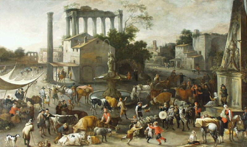 townscape; place (Rome); figure; animal (cattle, dog, horse, mule); buildings and gardens; trade and industry